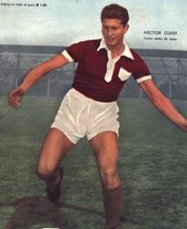 Hector Guidi playing for Lanús